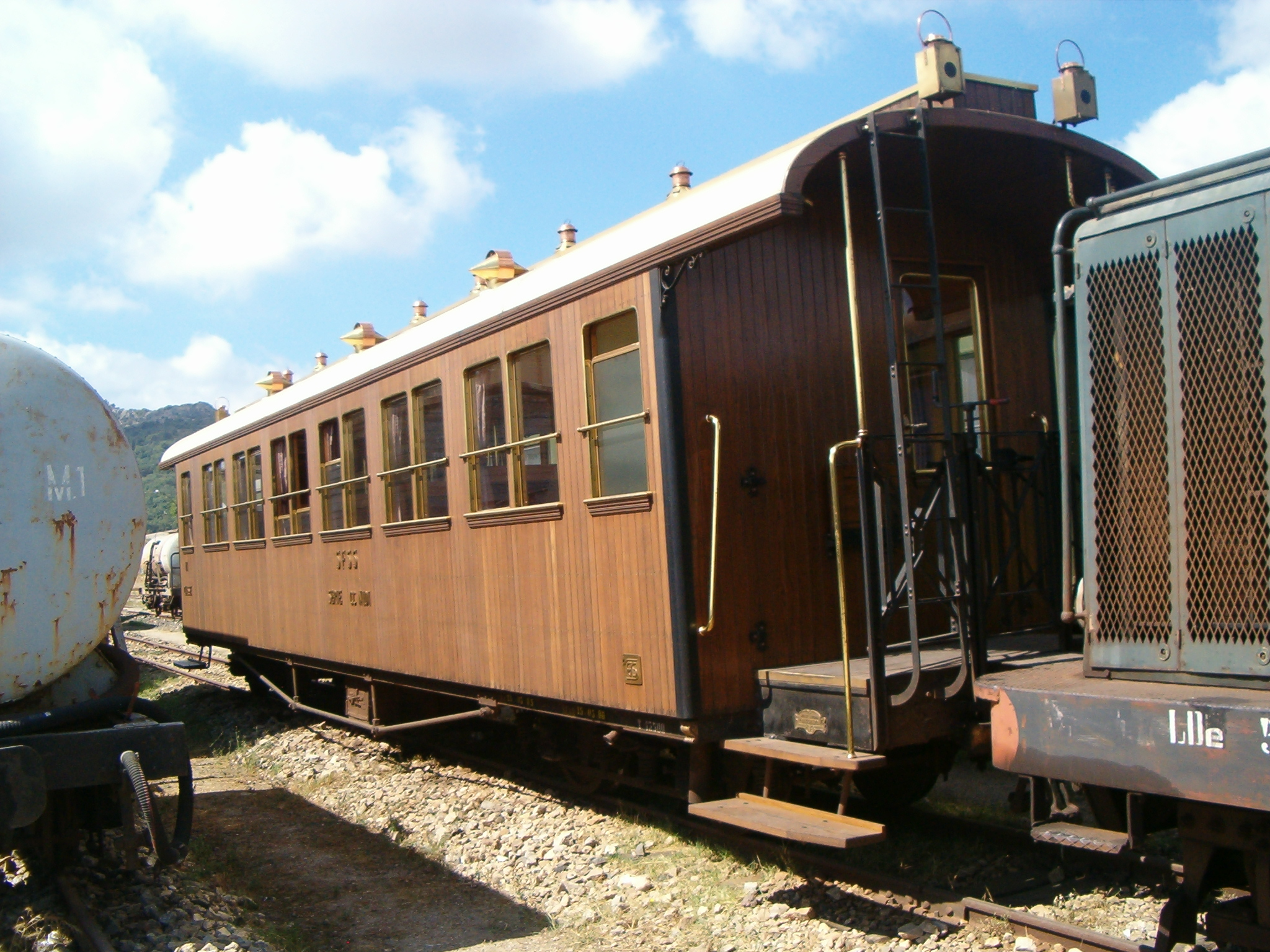 A Bauchiero rail car of Ferrovie della Sardegna, used for the turistic trains of Trenino Verde in Sardinia, Italy